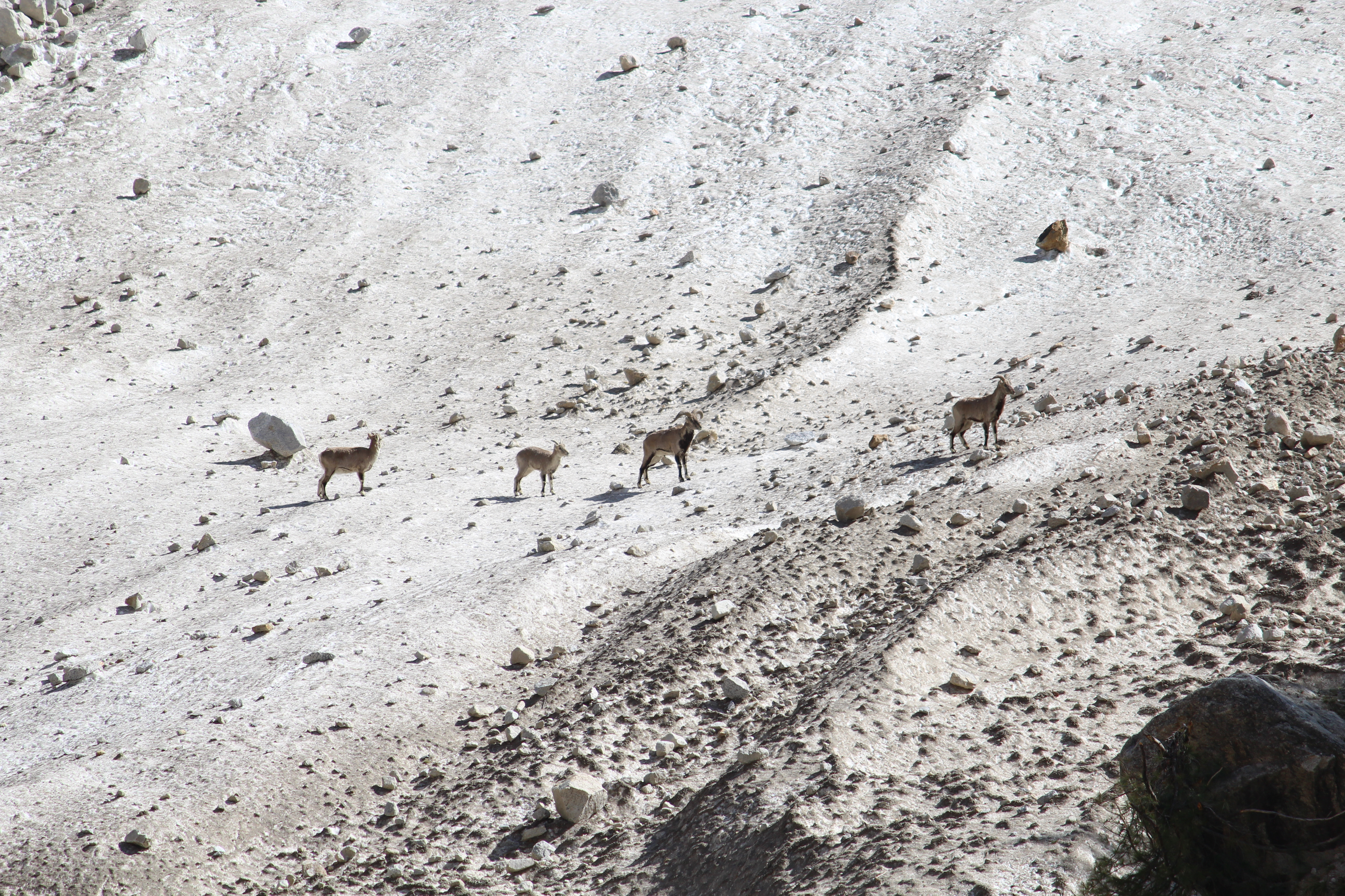 Bharal (Himalayan blue sheep) on the slope of Himalayan Mountain in Gangorti National park